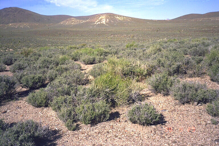 Nevada Test Site. Coleogyne ramosissima Shrubland Alliance in northern Mid Valley. This is one of three major alliances within the Transition Zone ecoregion of the Nevada Test Site.